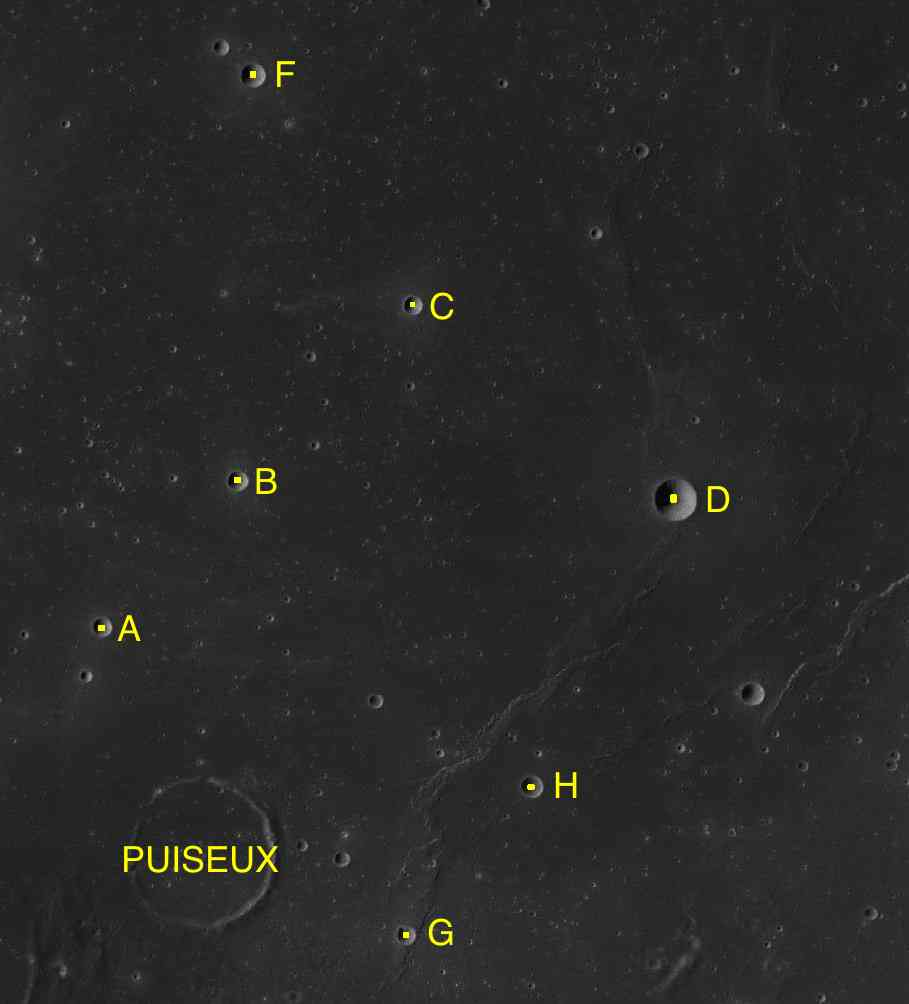 Part of the chart LAC-93 used for the presentation